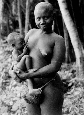 A young Onge mother with her baby. The Onge are a tribe of only 200 on the Andaman Islands. They fear complete extinction.